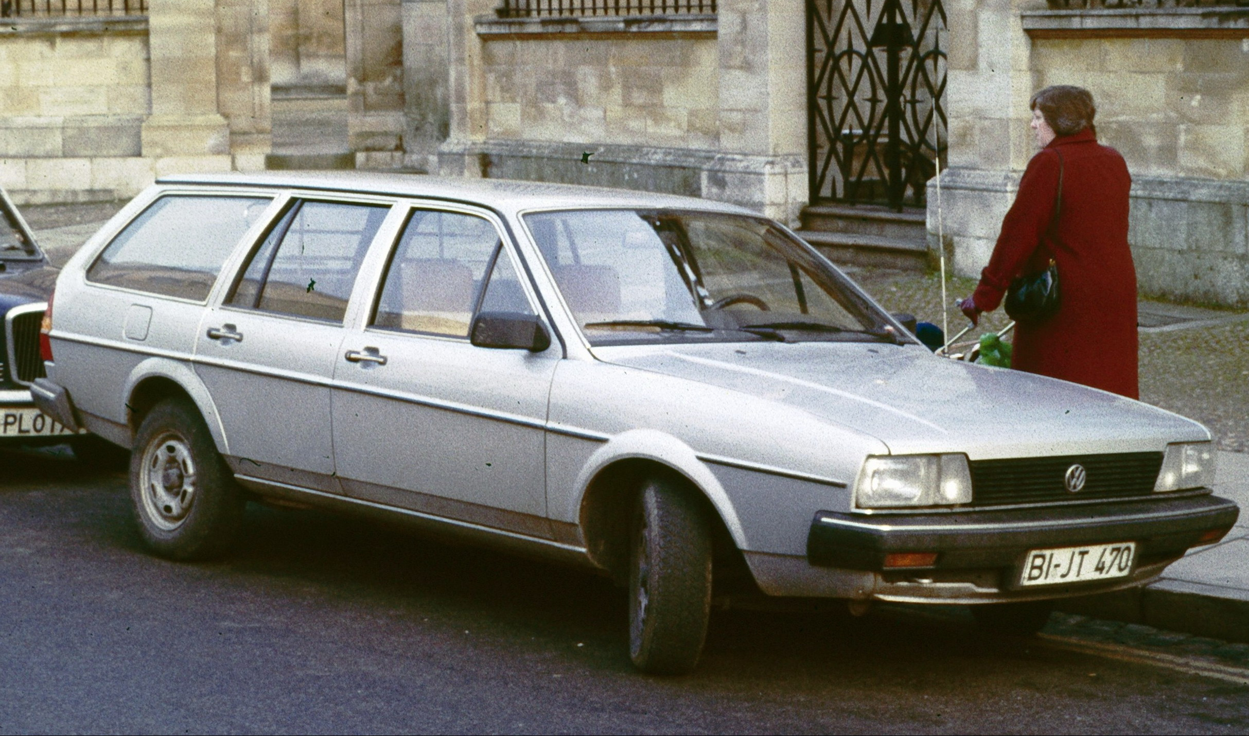 Volkswagen Passat B2 Variant from Bielefeld, Germany but photographed outside the Fitzwilliam Museum (beside Hobson's Conduit) in Cambridge, England. I know this because I made the photograph. Charles01 (talk) 15:41, 17 July 2010 (UTC)